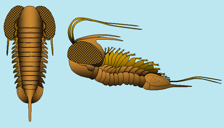 Opipeuterella (Proetida, Aulacopleurina, Bathyuroidea, Telephinidae), a possibly pelagic trilobite (Early Ordovician). To right, an hypothetical reconstruction of O. swimming upside down.